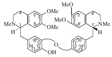 Dauricine scheme